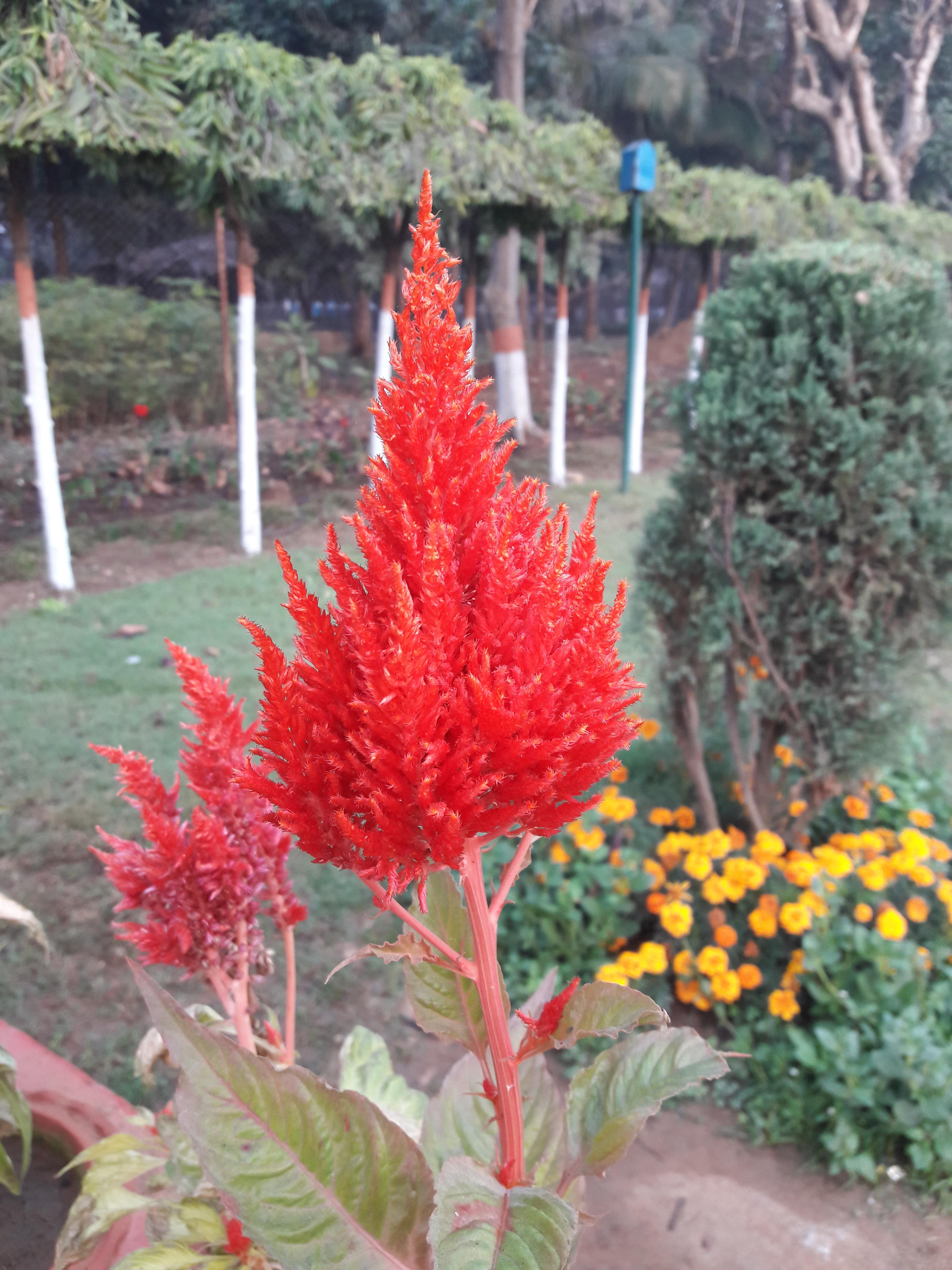 Flower Nalco BR AMBEDAKAR PARK